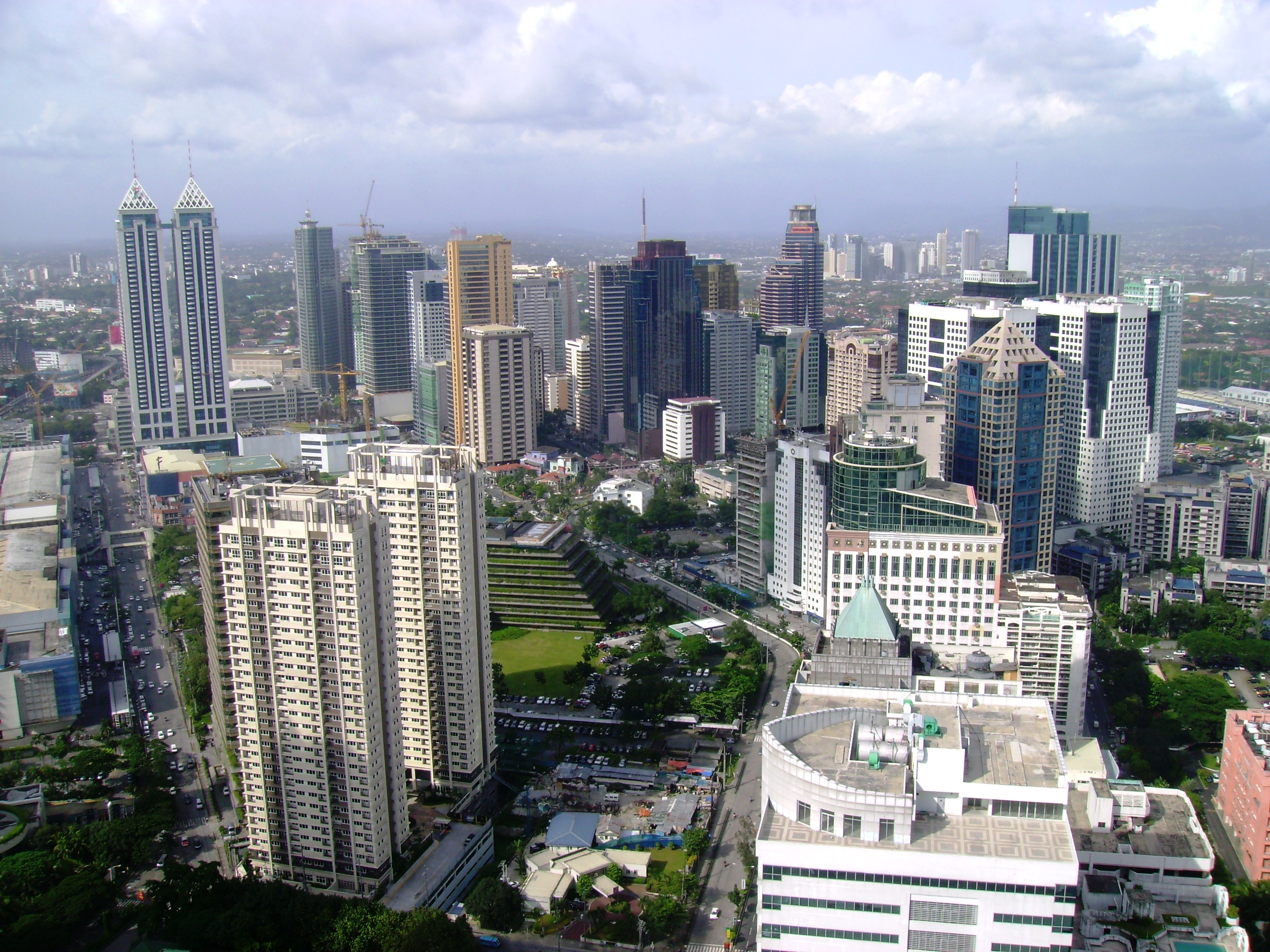 Aerial view of Ortigas Center in Pasig from One San Miguel Ave.